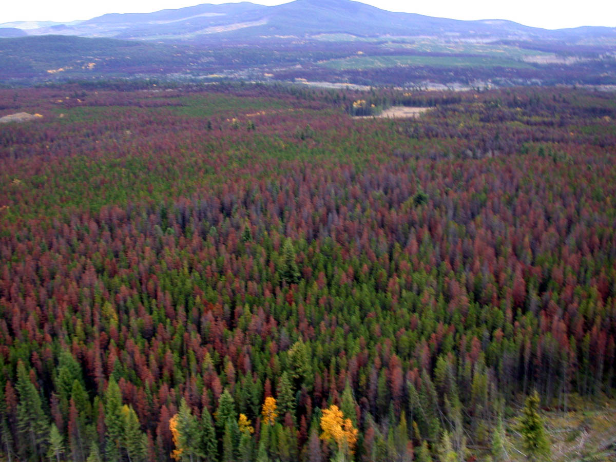 "Red" attacked trees from mountain pine beetle infestation in British Columbia Canada